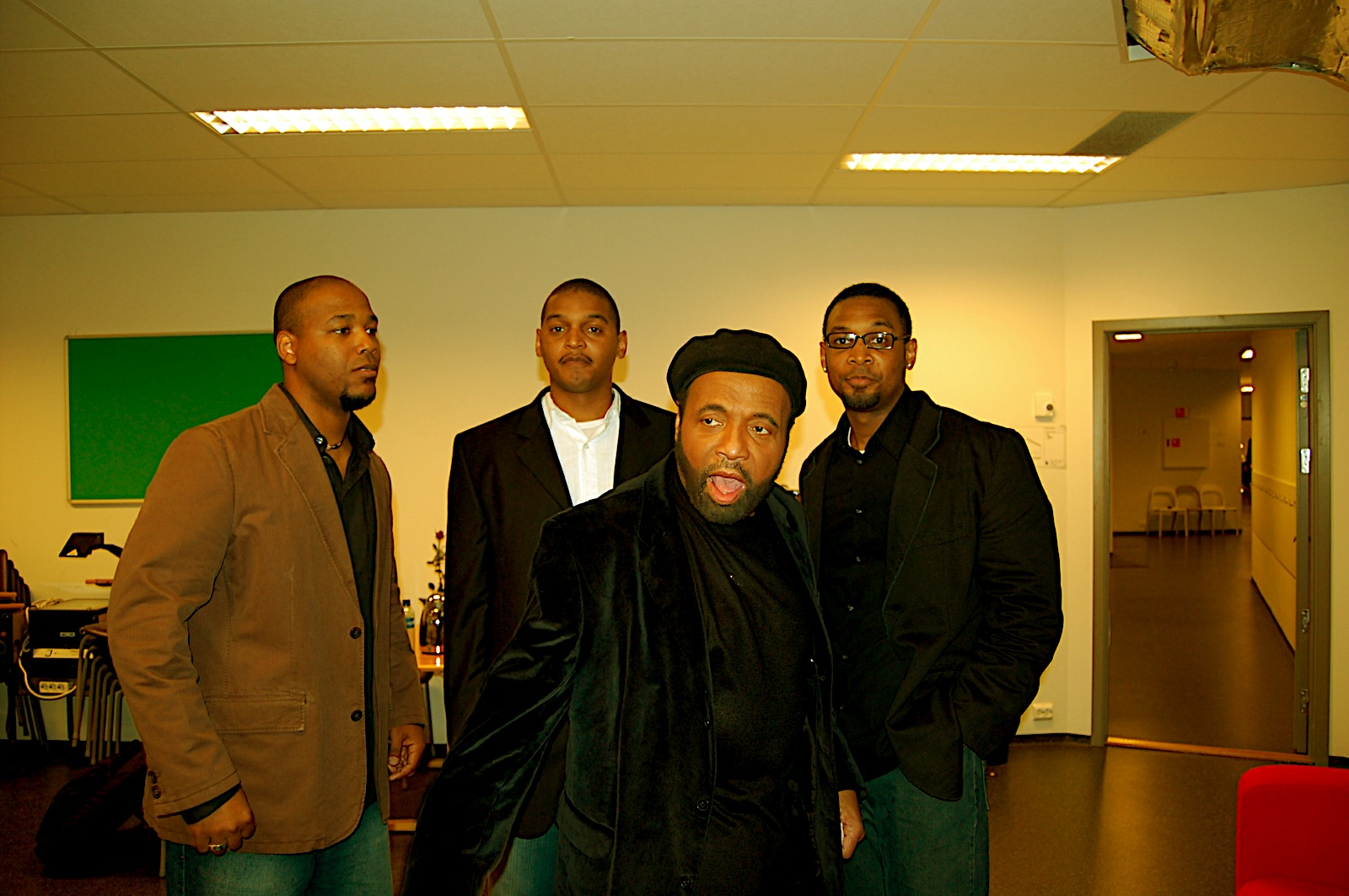 Andraé Crouch before a concert in Sandnes, Norway.